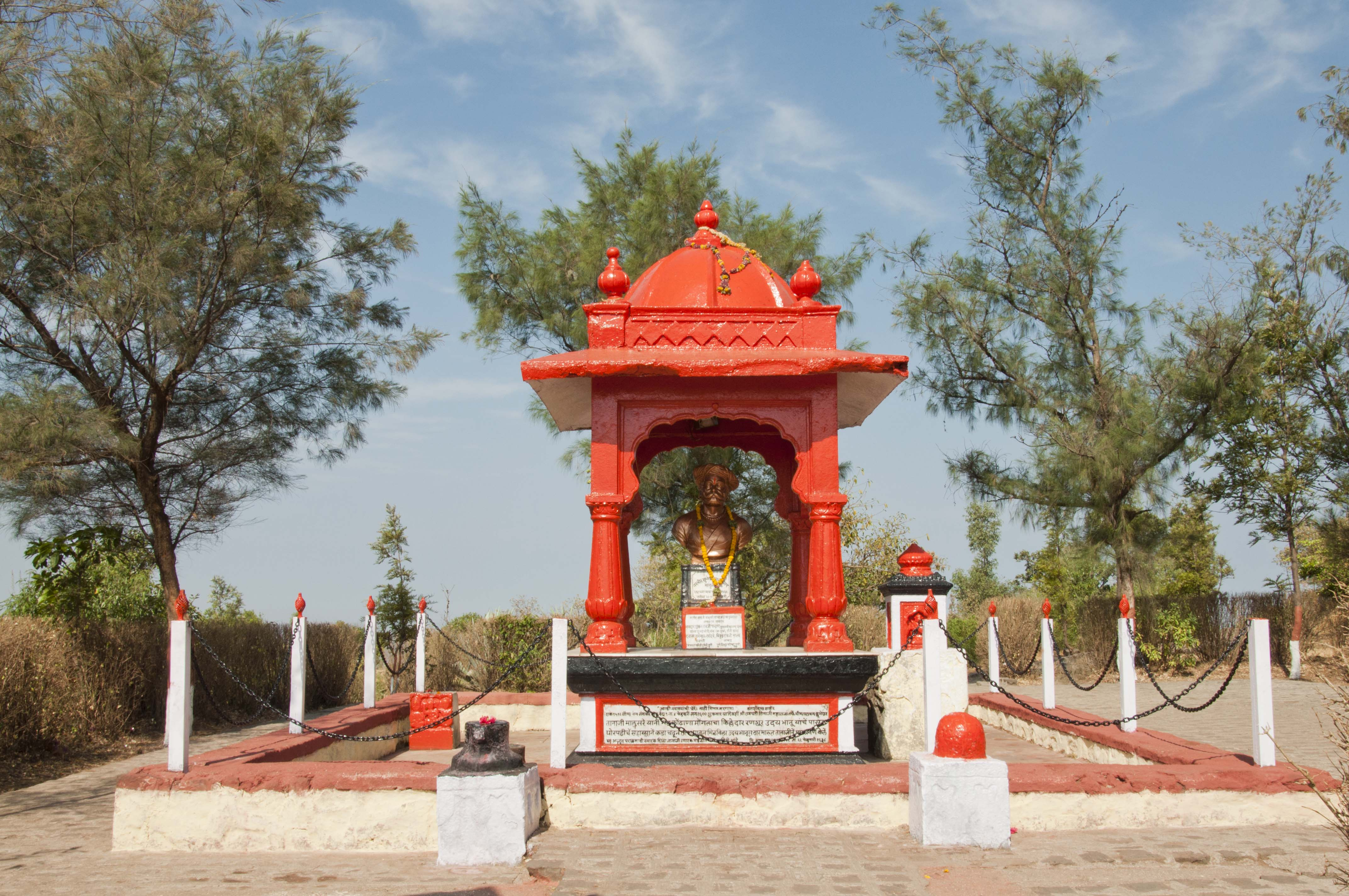 The samadhi Of Tanaji Malusre,Shivaji's general who lost his life while capturing the fort.